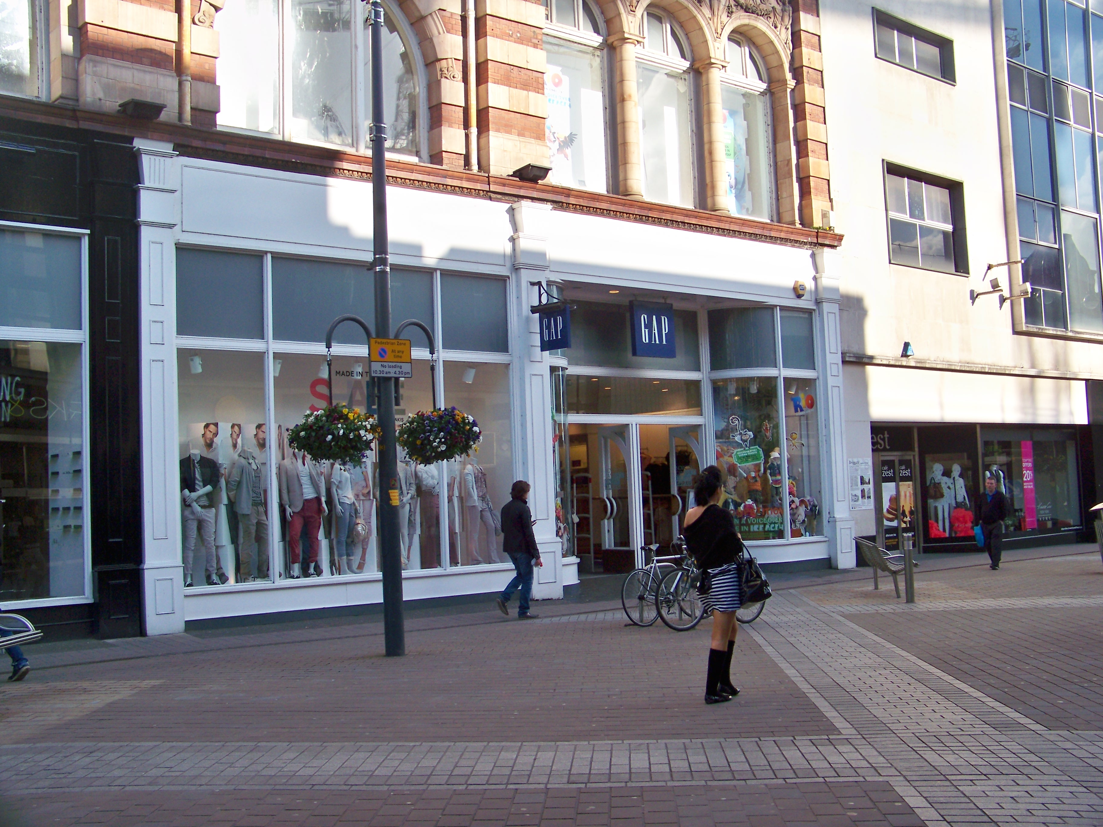 Gap on Briggate in Leeds, West Yorkshire. Taken on the afternoon of Monday the 11th of April 2011.